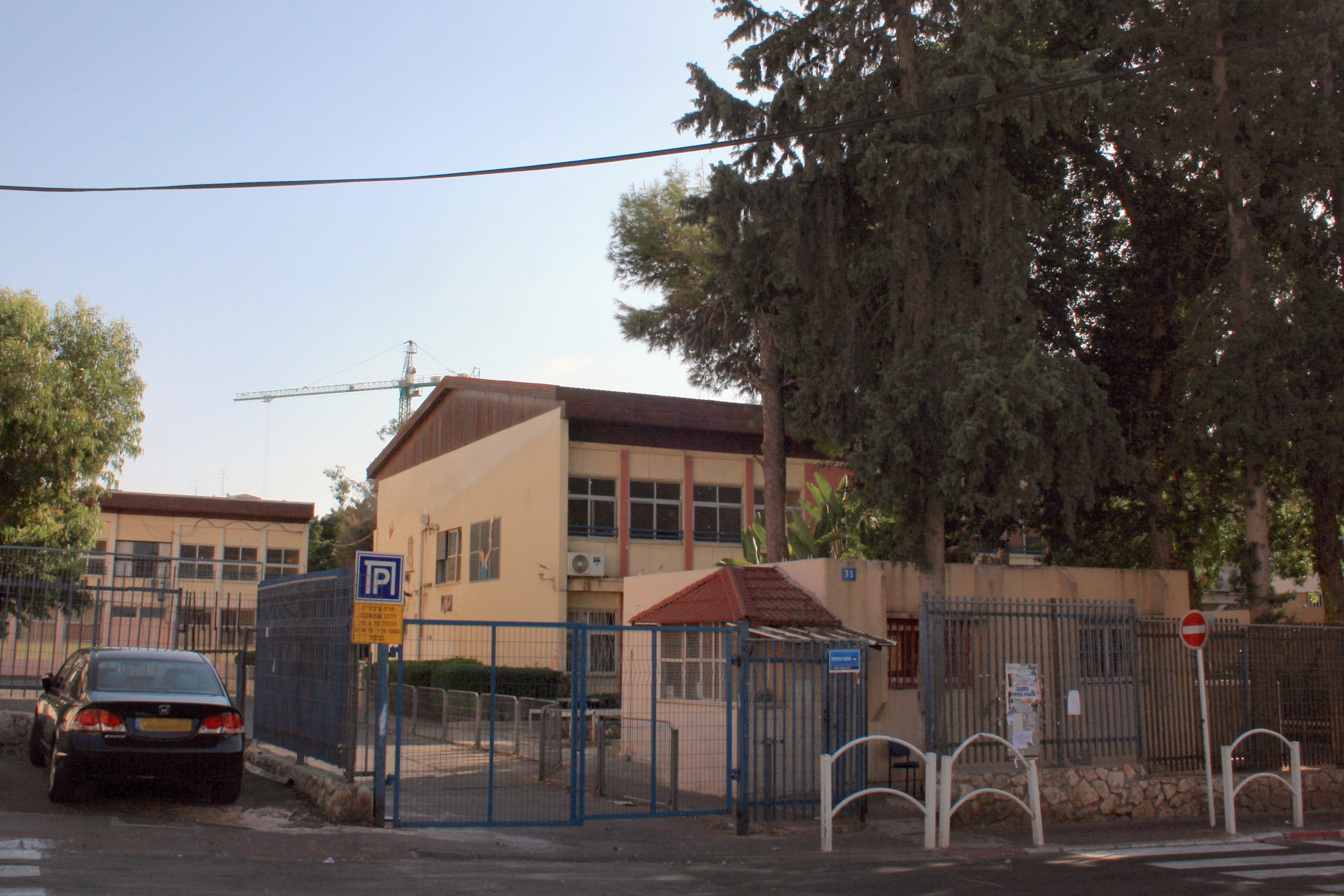 Gymnasia Realit, Rishon LeZion